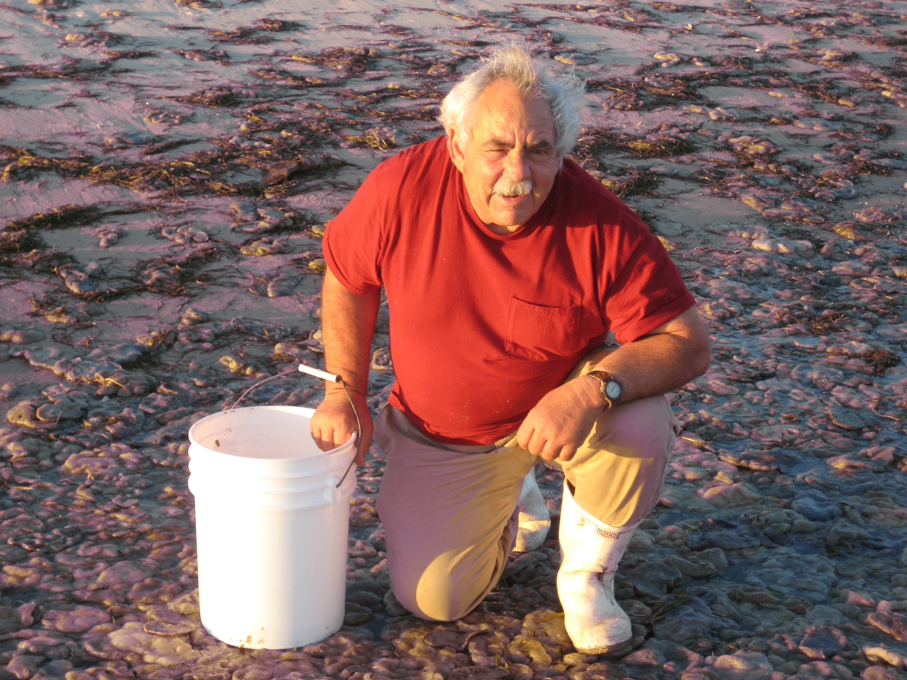 Jack Rudloe at age 70 collecting specimens.